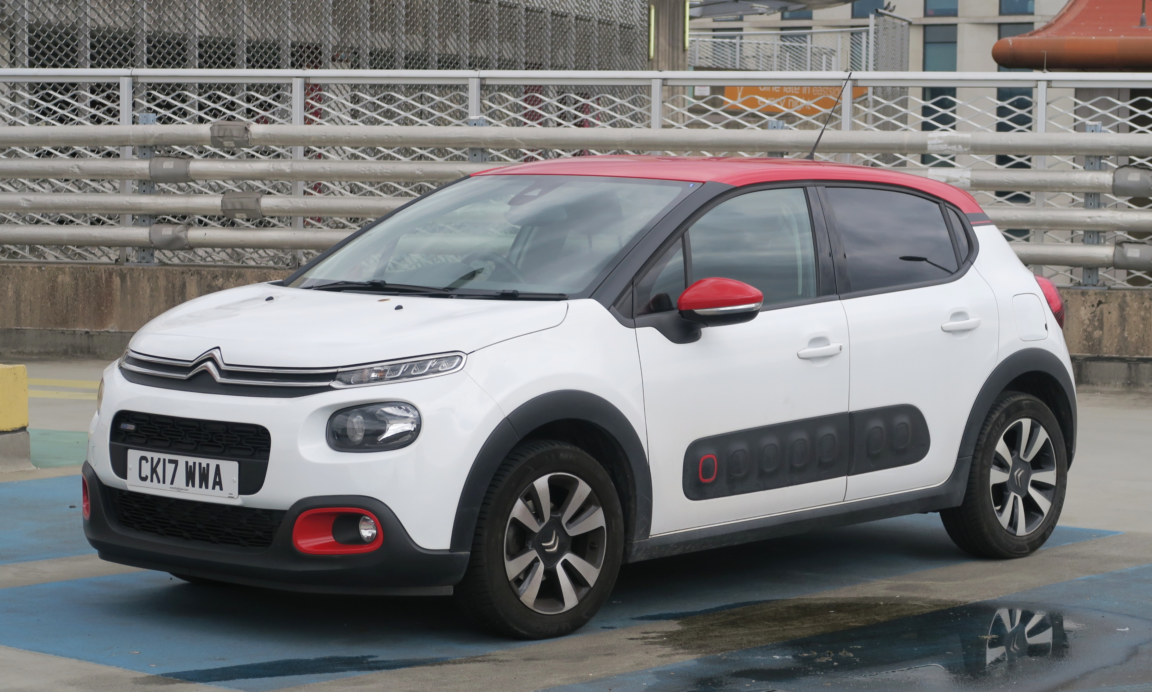 Citroën C3 1200cc registered May 2017